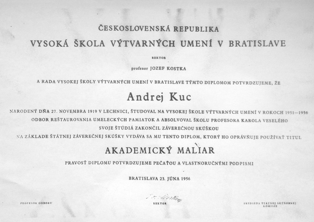 Andrej Kuc VSVU Diploma